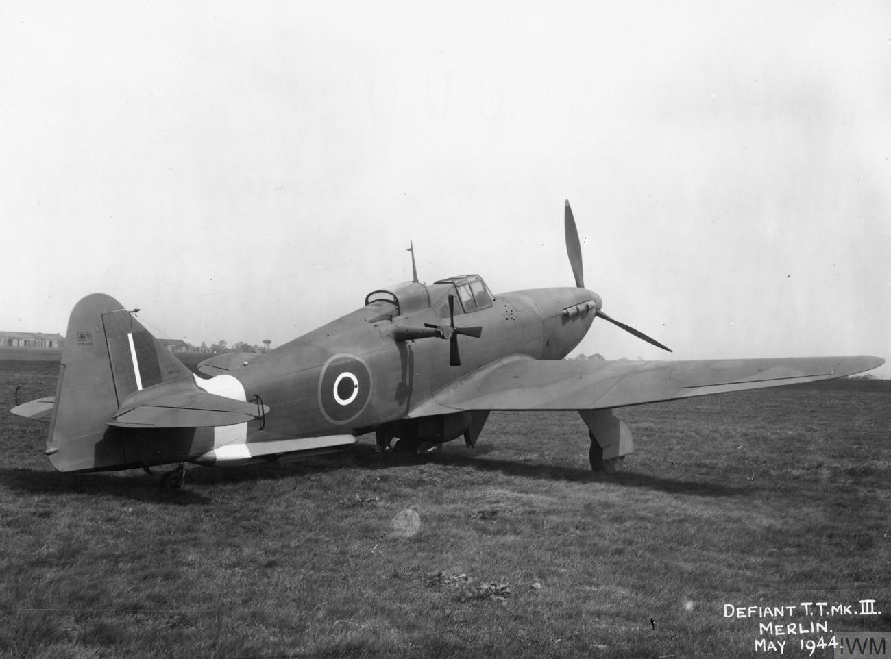 Boulton Paul Defiant Mark III, N1697, target tug at Desford, Leicestershire. Previously a Mark 1 fighter with No. 256 Squadron RAF, it has been converted to a target tug by Reid & Sigrist Ltd. As a target tug, it served with Nos. 288 and 667 Squadrons RAF.